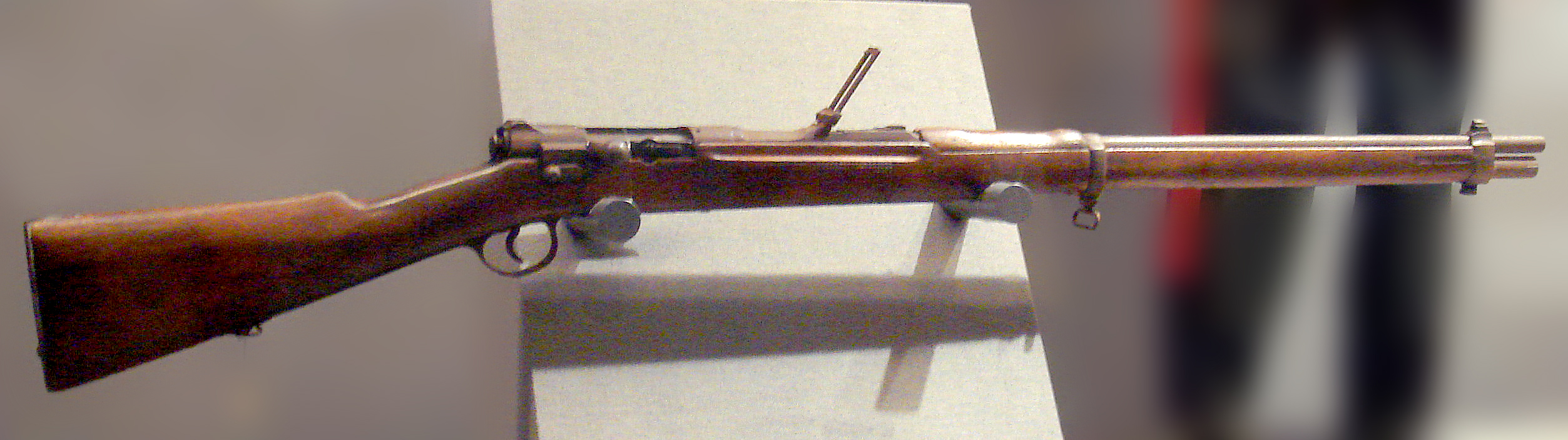 Murata Year 22 (sometimes referred to as a Type 22) rifle